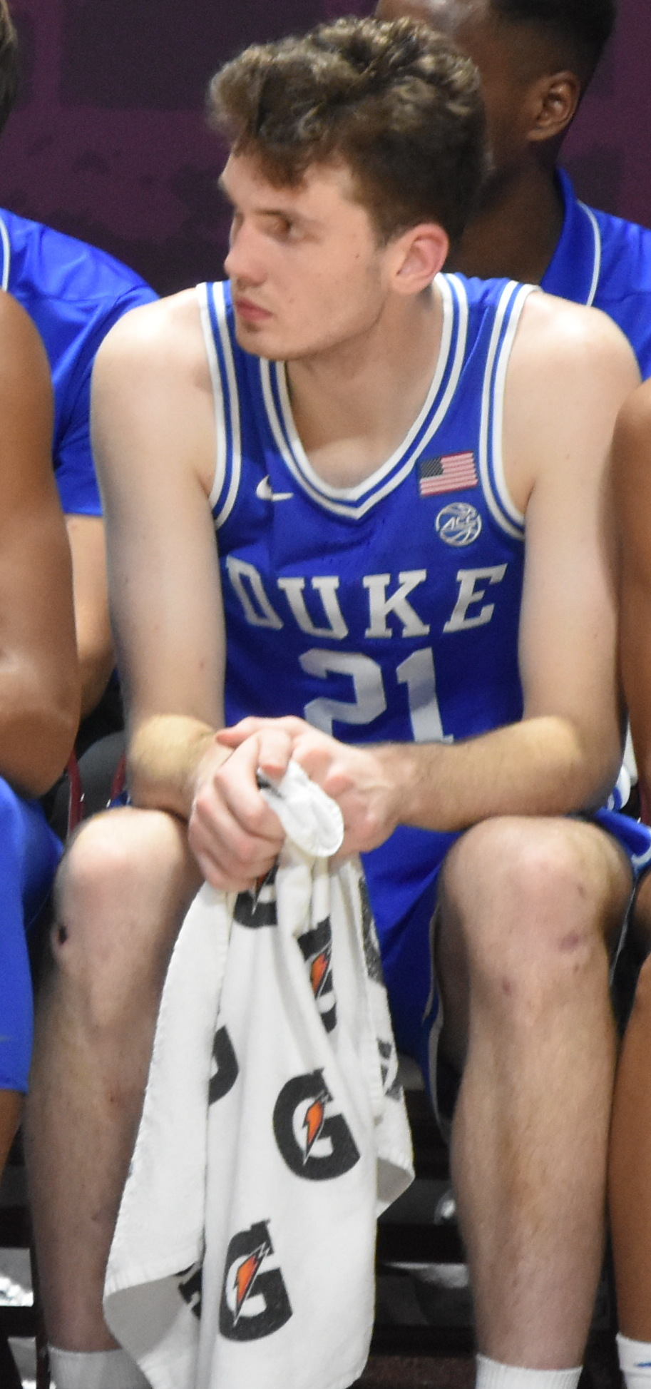 The Duke Bench at Cassell Coliseum